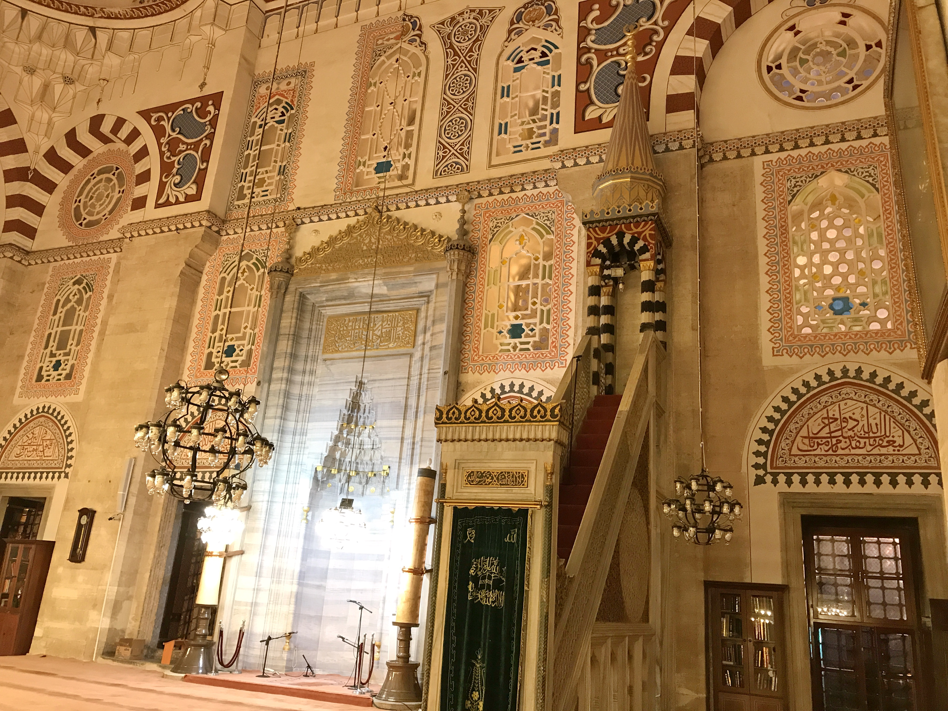 Şehzade Mosque, a 16th-century Ottoman imperial mosque located in the district of Fatih, on the third hill of Istanbul, Turkey. It was commissioned by Suleiman the Magnificent as a memorial to his favorite son Şehzade Mehmed who died in 1543. It is sometimes referred to as the "Prince's Mosque" in English. Suleiman is said to have personally mourned the death of Mehmed for forty days at his temporary tomb in Istanbul, the site upon which the imperial architect Mimar Sinan would construct a lavish mausoleum to Mehmed as one part of a larger mosque complex dedicated to the princely heir. The complex was Sinan's first important imperial commission and ultimately one of his most ambitious architectural works, even though it was designed early in his long career.